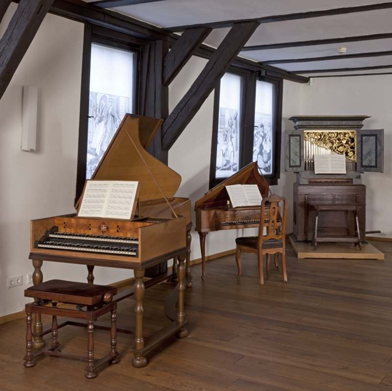 Musical instruments in the Bach House, Eisenach, 2014.